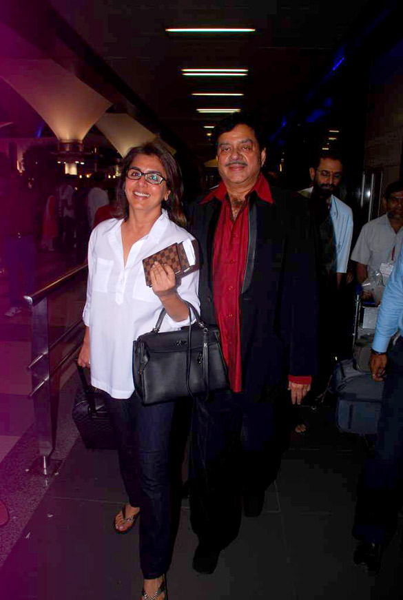 Neetu Singh,Shatrughan Sinha returns from IIFA 2012